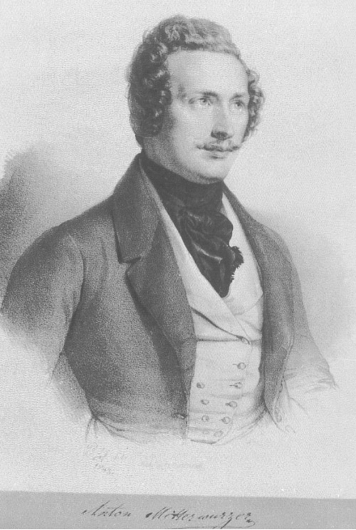 Anton Mitterwurzer (1818–1876), Austrian opera singer (baritone).